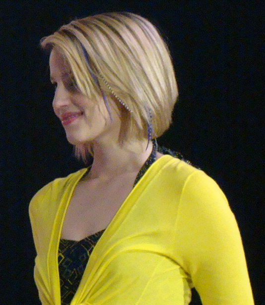 Dianna Agron as Quinn Fabray, performing "Lucky" on the Glee Live! In Concert! tour.